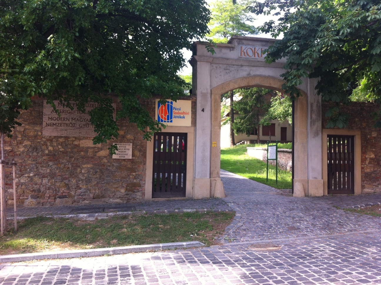 Renaissance Stone Works, Pécs, Hungary